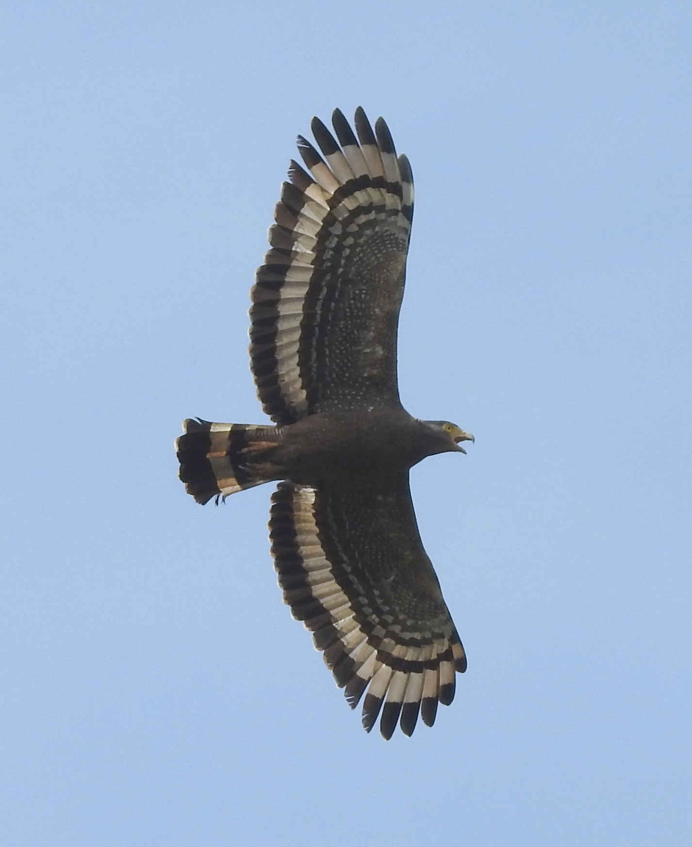 CSE (Crested serpent eagle) ചുട്ടിപ്പരുന്ത് (Spilornis cheela) 28.11.2016 Thanal Agro Ecology Centre, Panavally, Wyanad